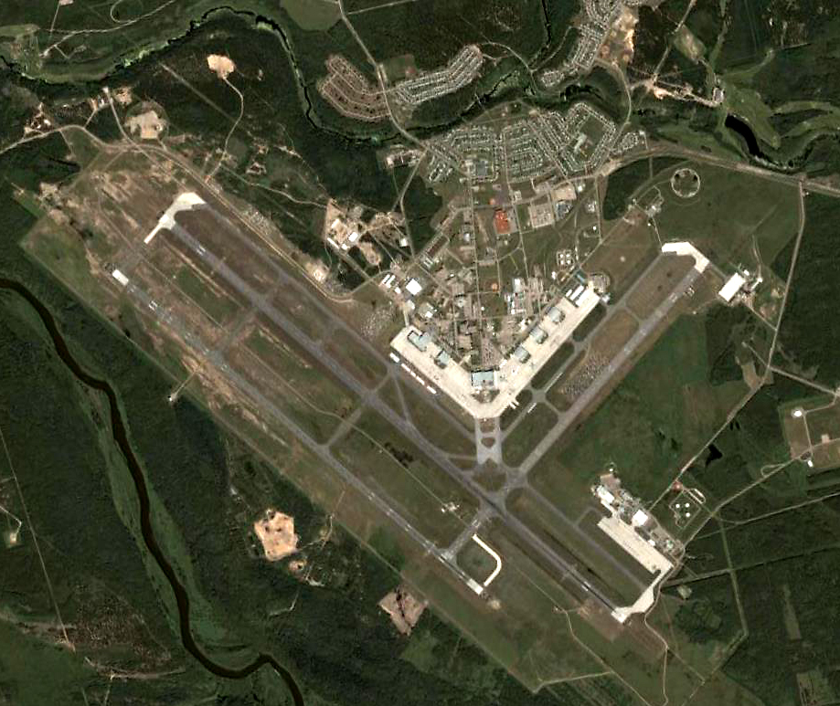 CFB Cold Lake (YCOD)